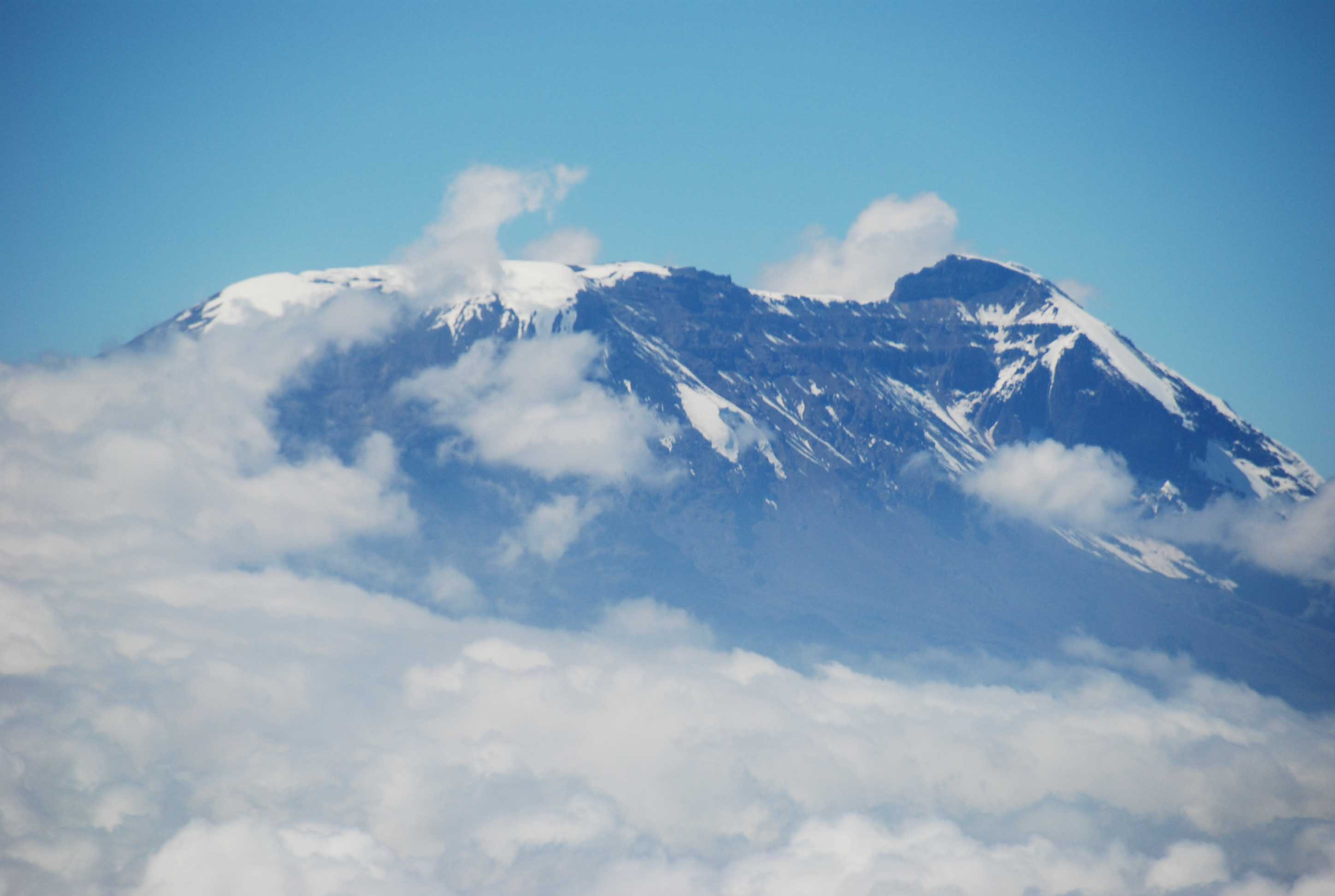 Mount Kilimanjaro from the air.